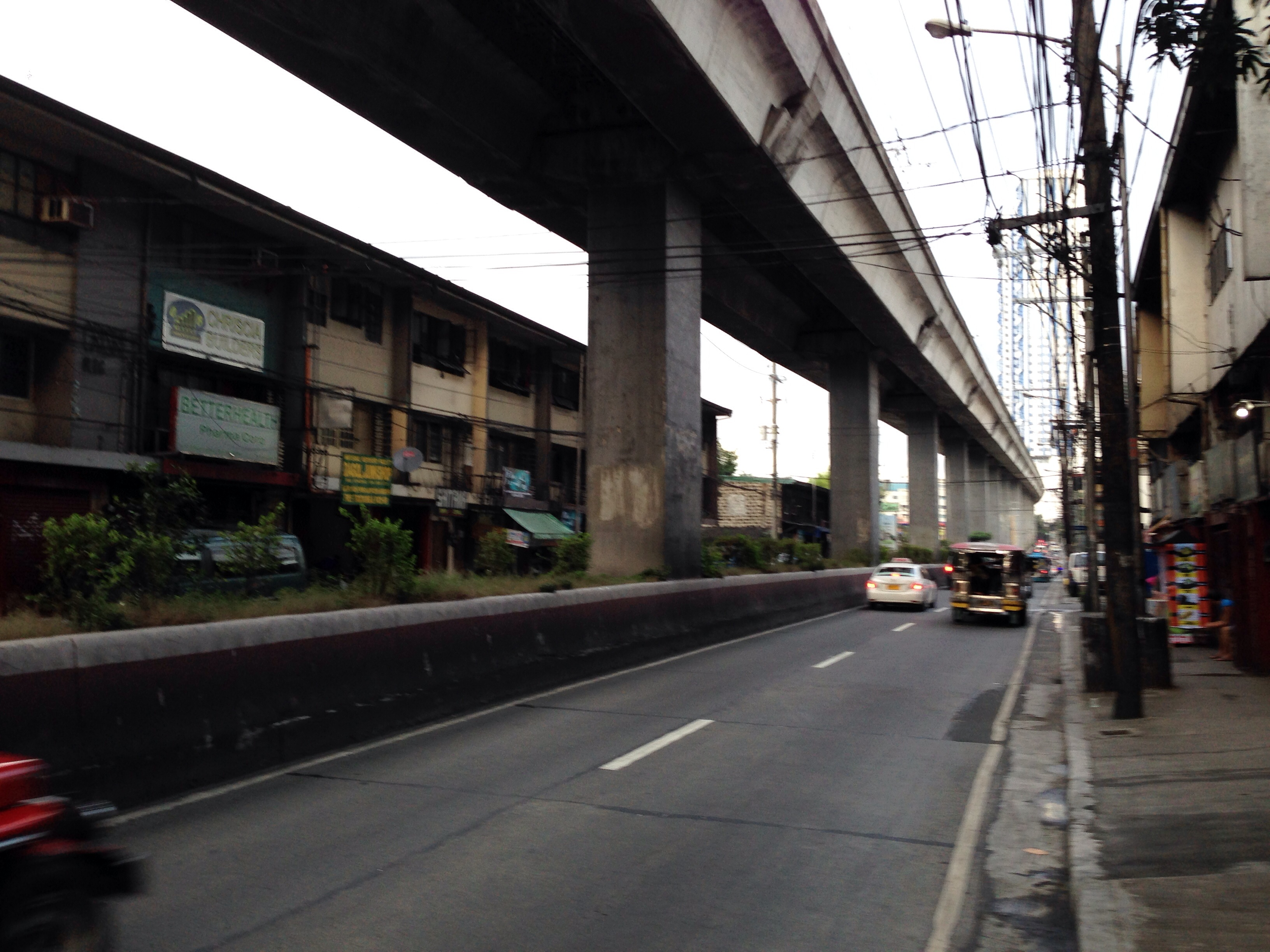 Aurora Boulevard, San Juan, Metro Manila, Philippines